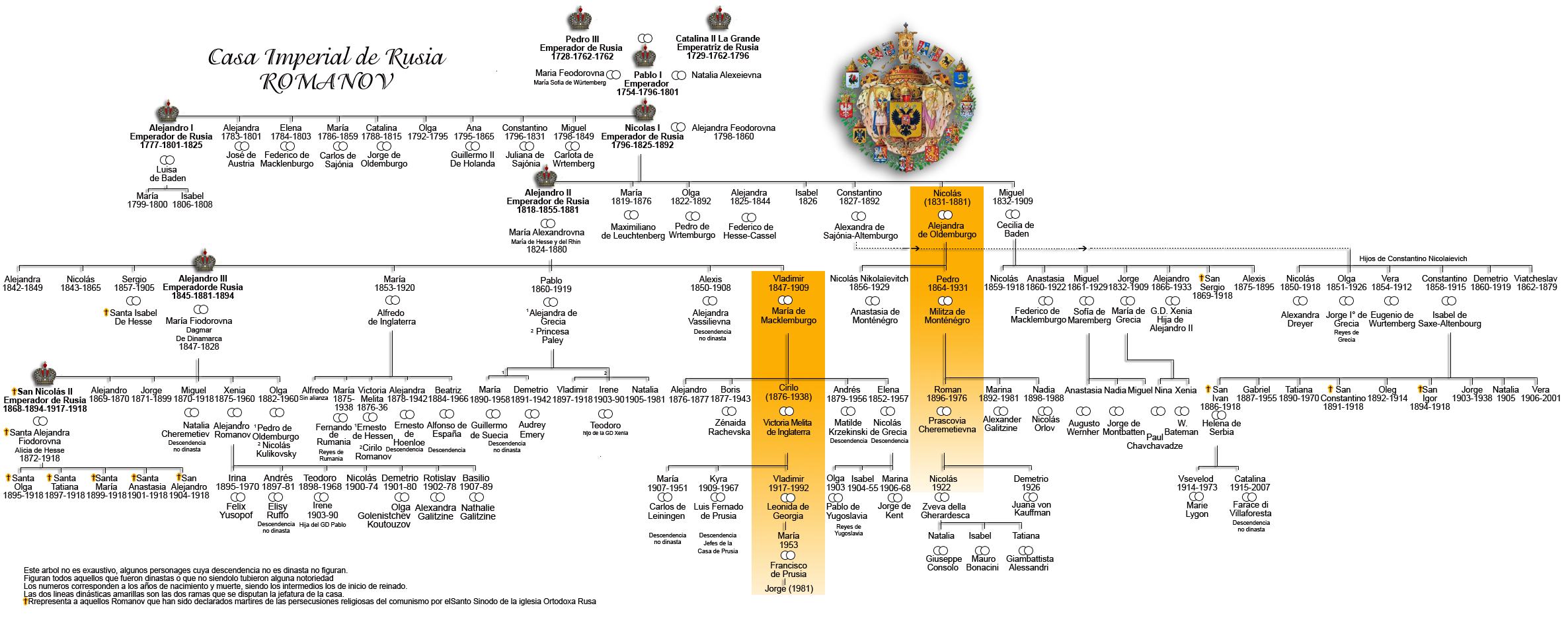 Romanov tree arbol arbre